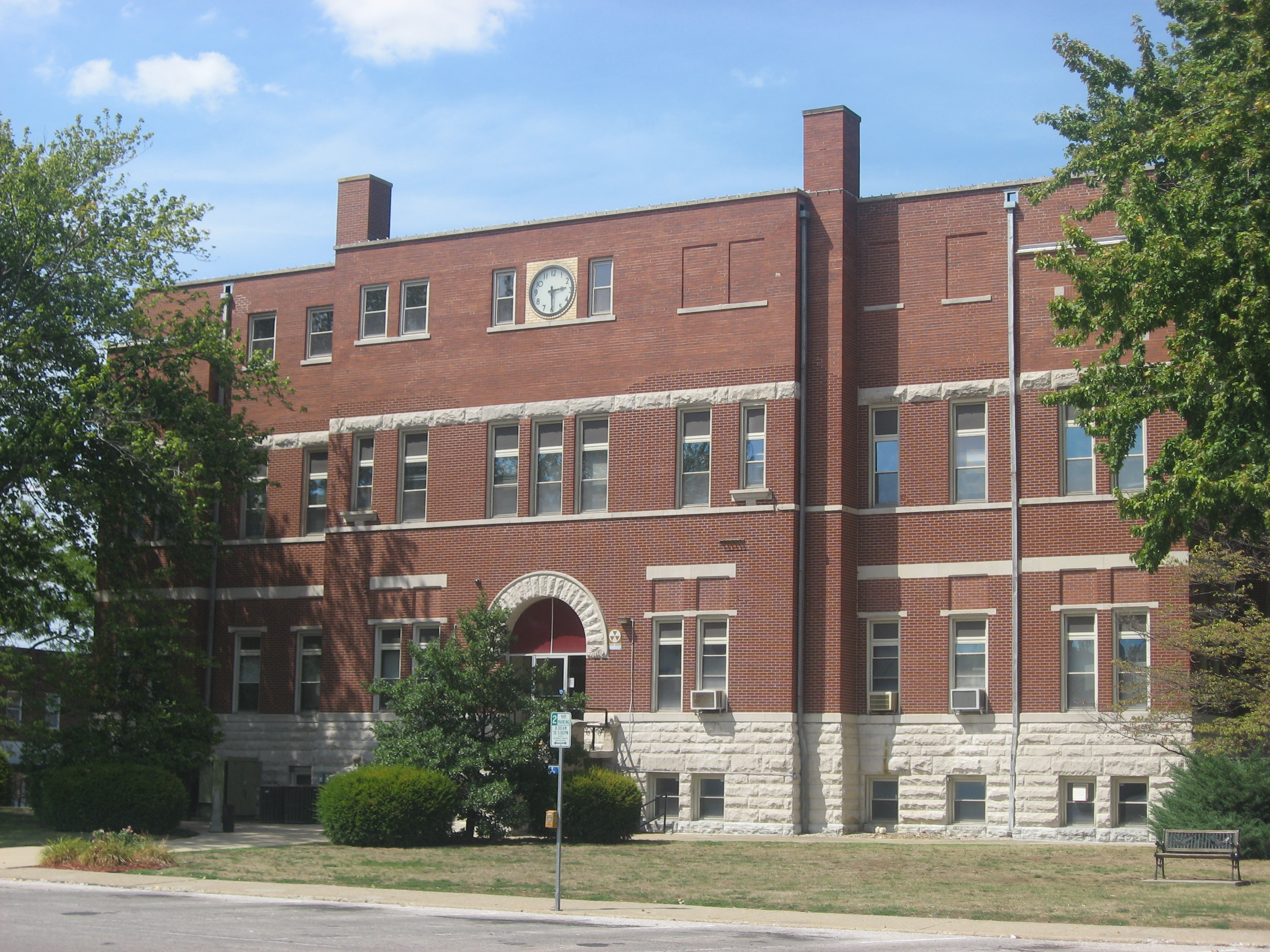 Southern (rear) side of the Crawford County Courthouse, located along Illinois Route 33 on Courthouse Square in Robinson, Illinois, United States. It was built in 1895.